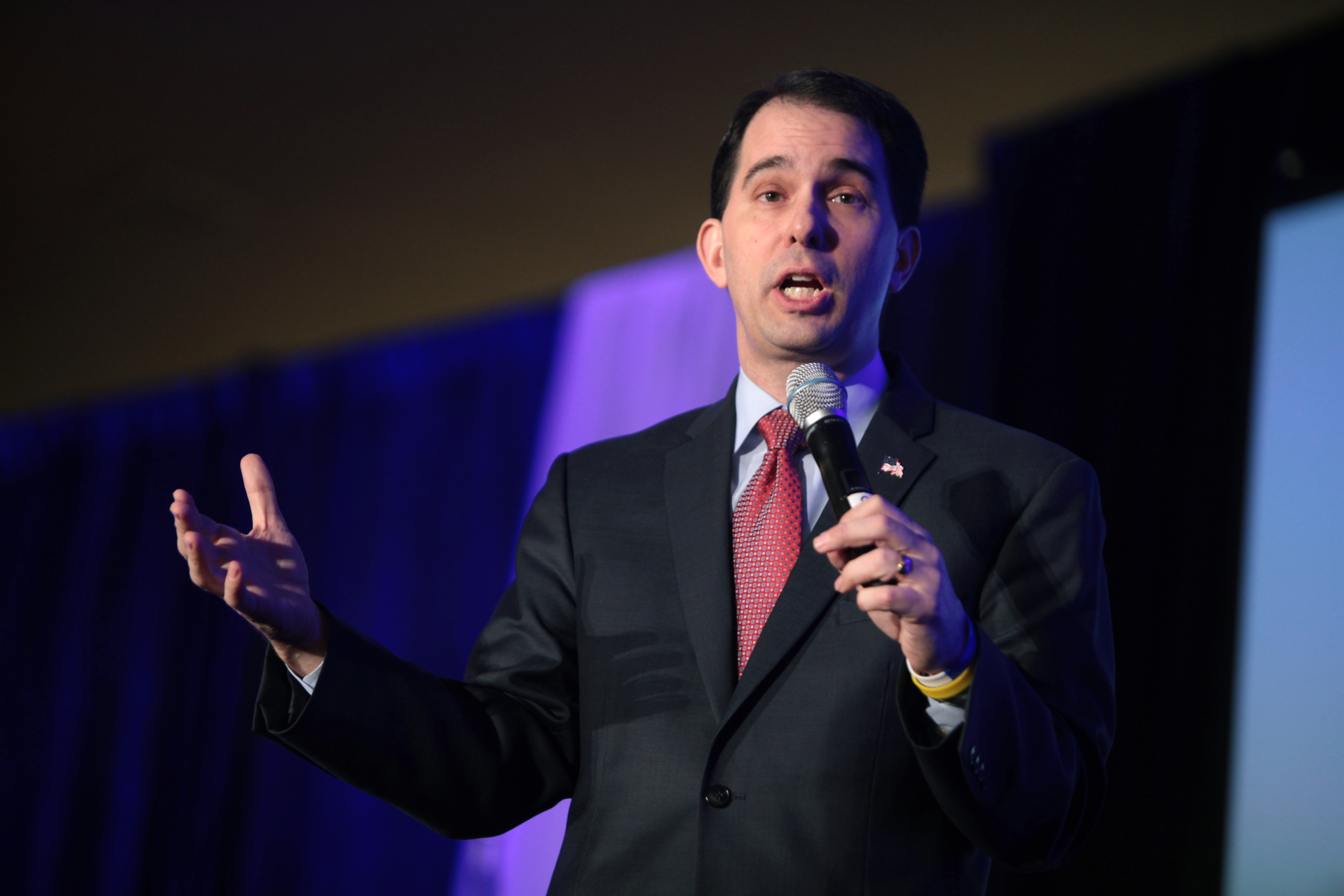 Scott Walker speaking at an event in Phoenix, Arizona.